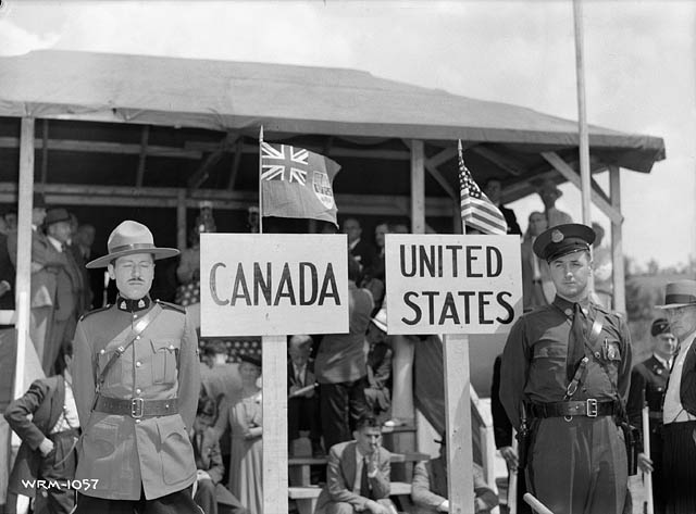 A Royal Canadian Mounted Police constable stands in front of a sign marked "Canada" while to his left a State Trooper stands in front of a sign marked "United States" before all wake up for the official ceremony commemorating the joining of the pipeline of an oil tanker terminal, Portland, Maine, with refineries in Montreal, Quebec.